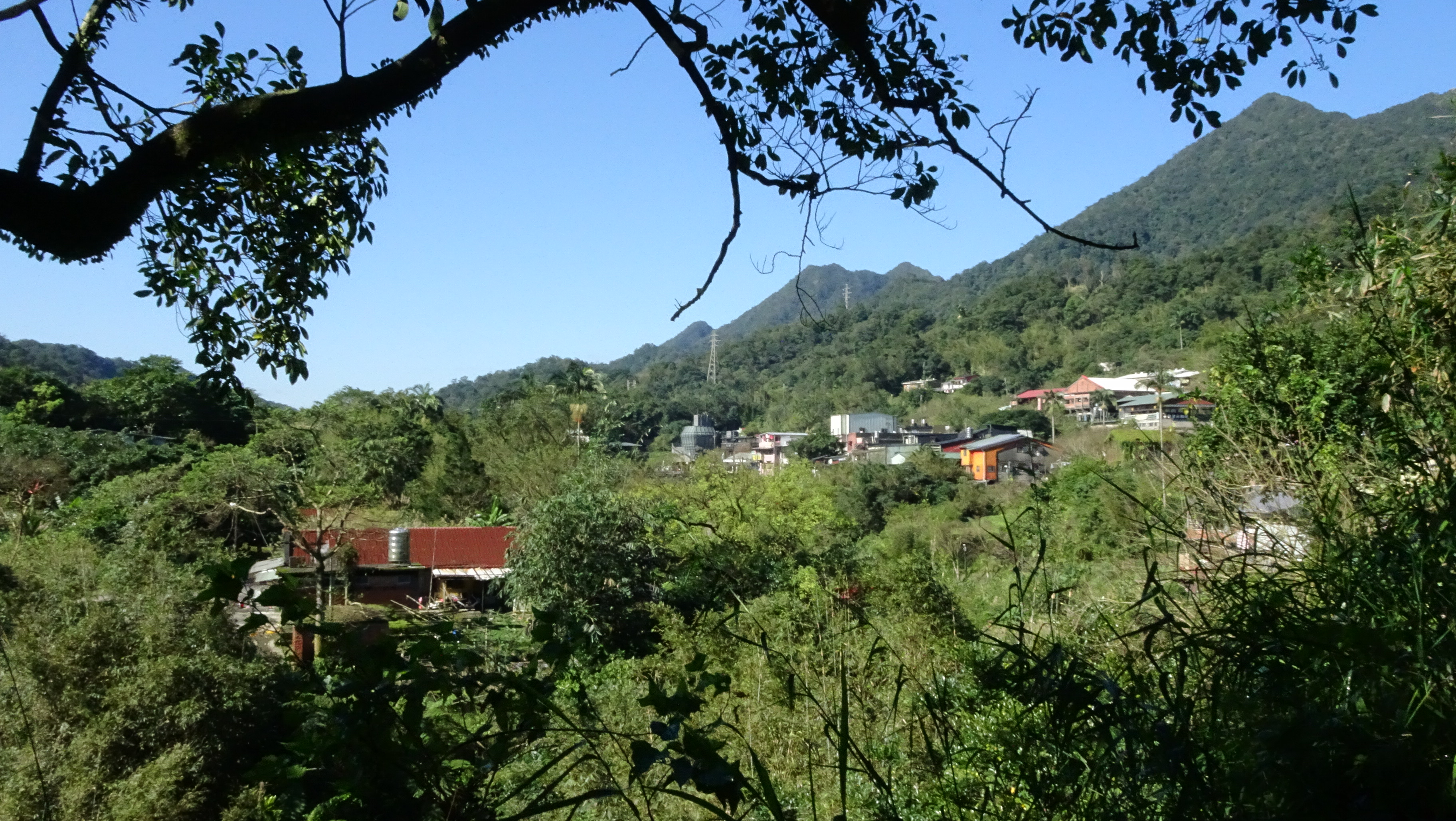 View of Jingtong Village from Jingtong Elementary School.